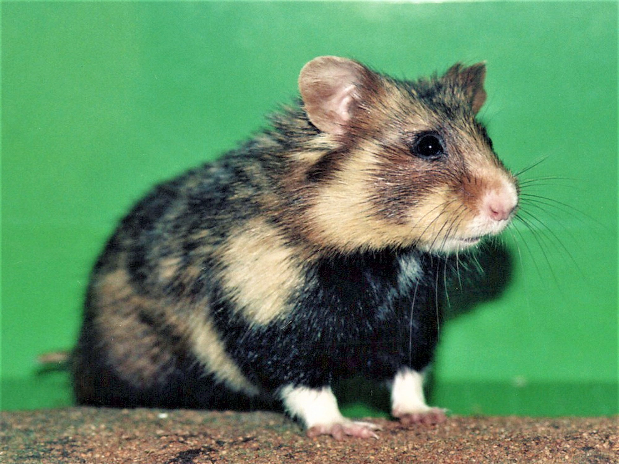 European Hamster (Cricetus cricetus), tamed.